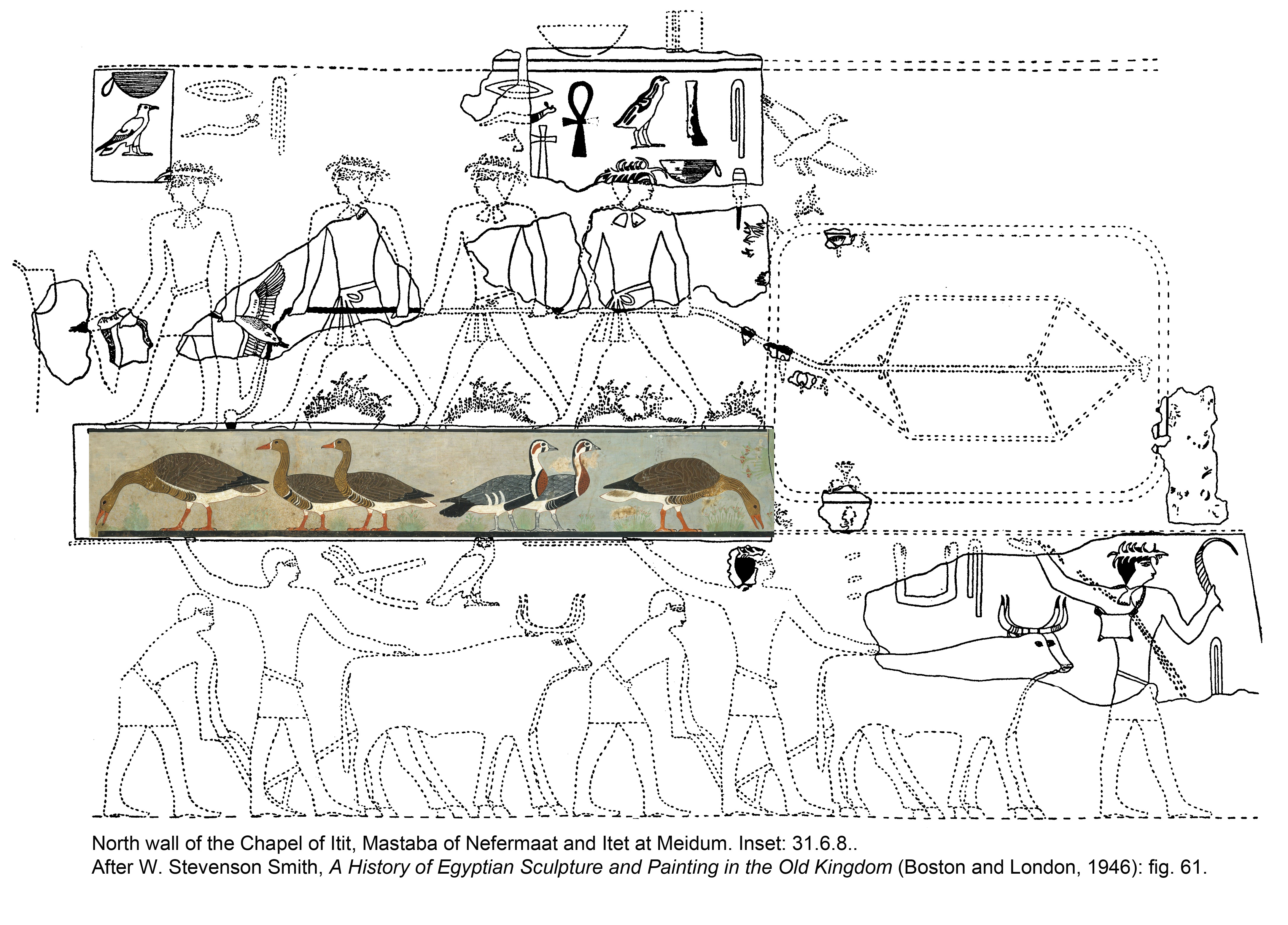 Facsimile, Nefermaat and Itet, Meidum geese